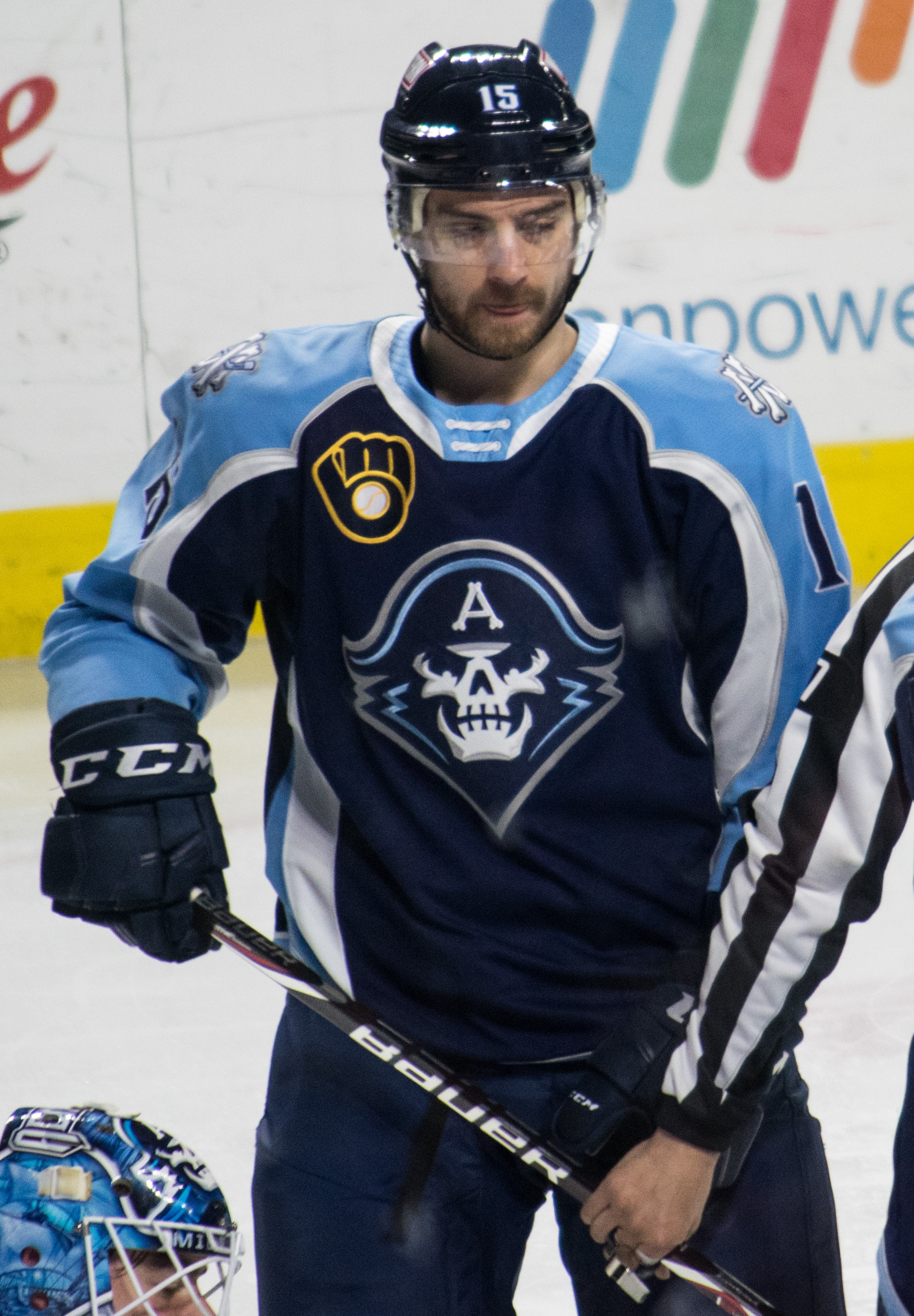 Photo of Milwaukee Admirals Defenceman Duncan Siemens